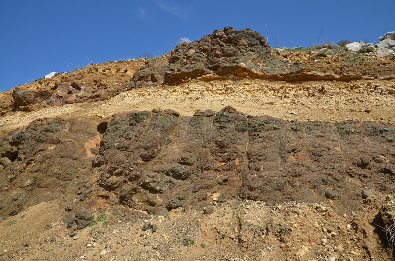 Cliff with lava flows of dark-coloured basalt interlayered with light-coloured calcareous marl sediments at the Jurassic-Cretaceous stratigraphic boundary, near Mayrouba in Lebanon. The lava flows show spheroidal weathering.